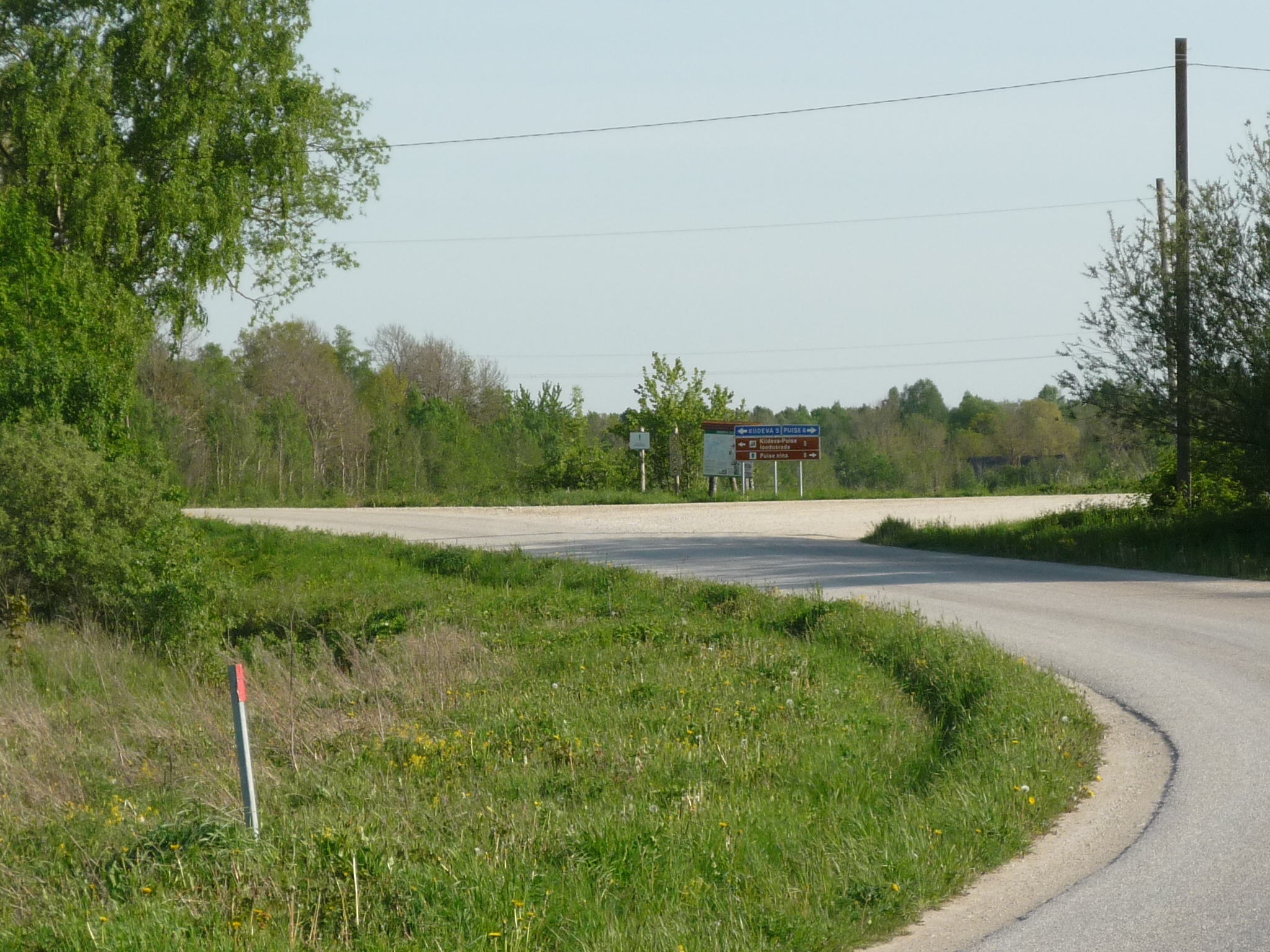 Start of the road to Puise nina (which is on the right side), that is, detaching from Parila-Kiideva road. Tuuru village, Ridala parish, Lääne county, Estonia.